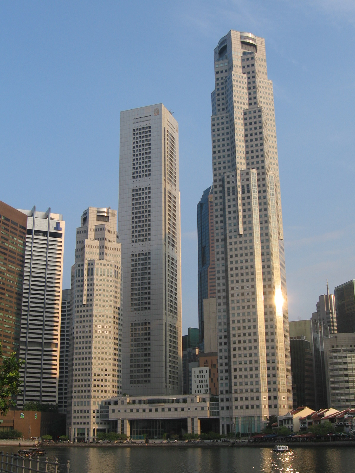 UOB Plaza Towers and OUB Centre